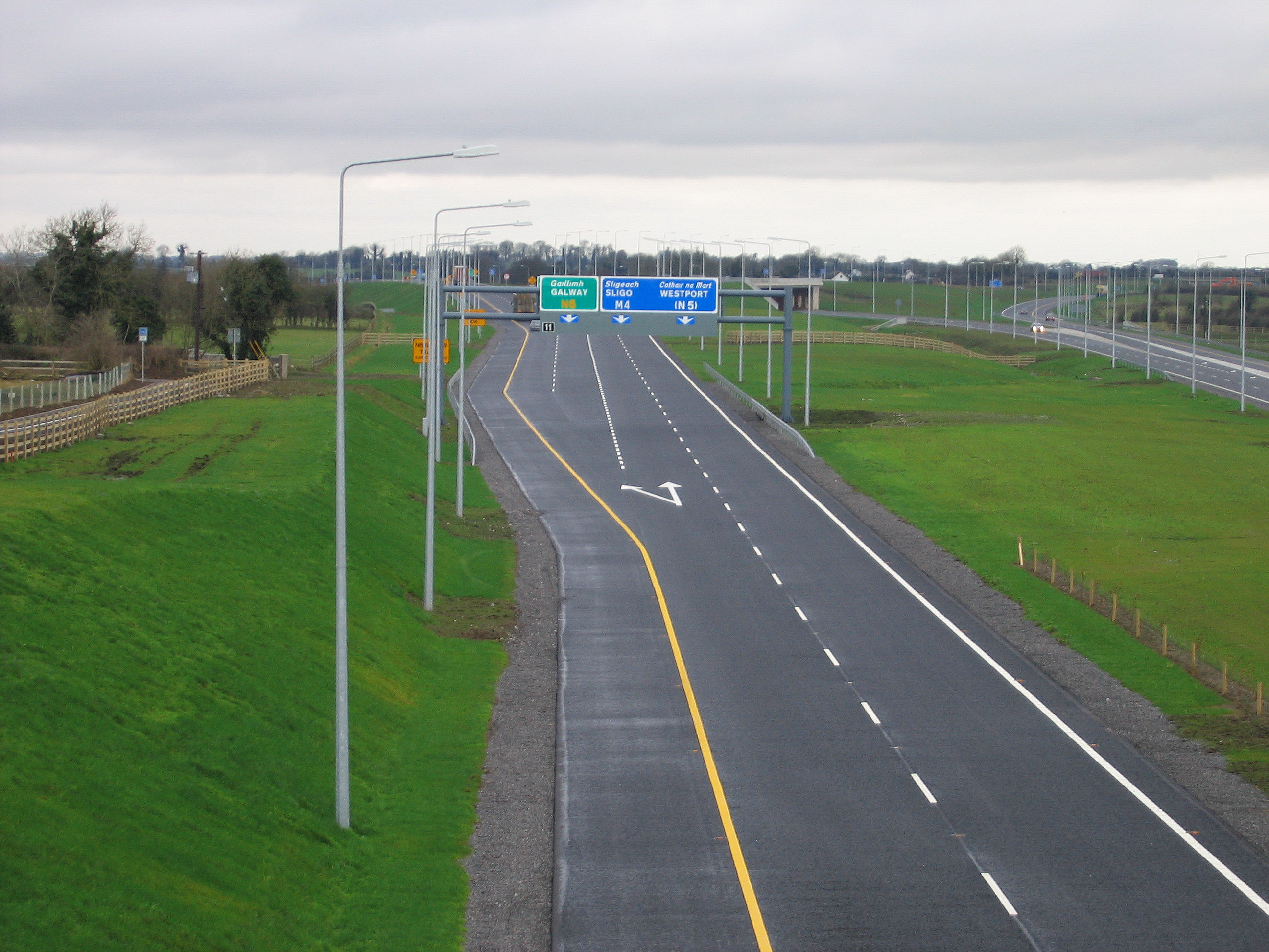 M4 Heading west at J11 (start of the N6 near Kinnegad); February 2006. Note the misleading sign suggesting driver 'get in lane' for the N4 and N5. However, the N5 doesn't start until Longford, a distance of approximately 61km.